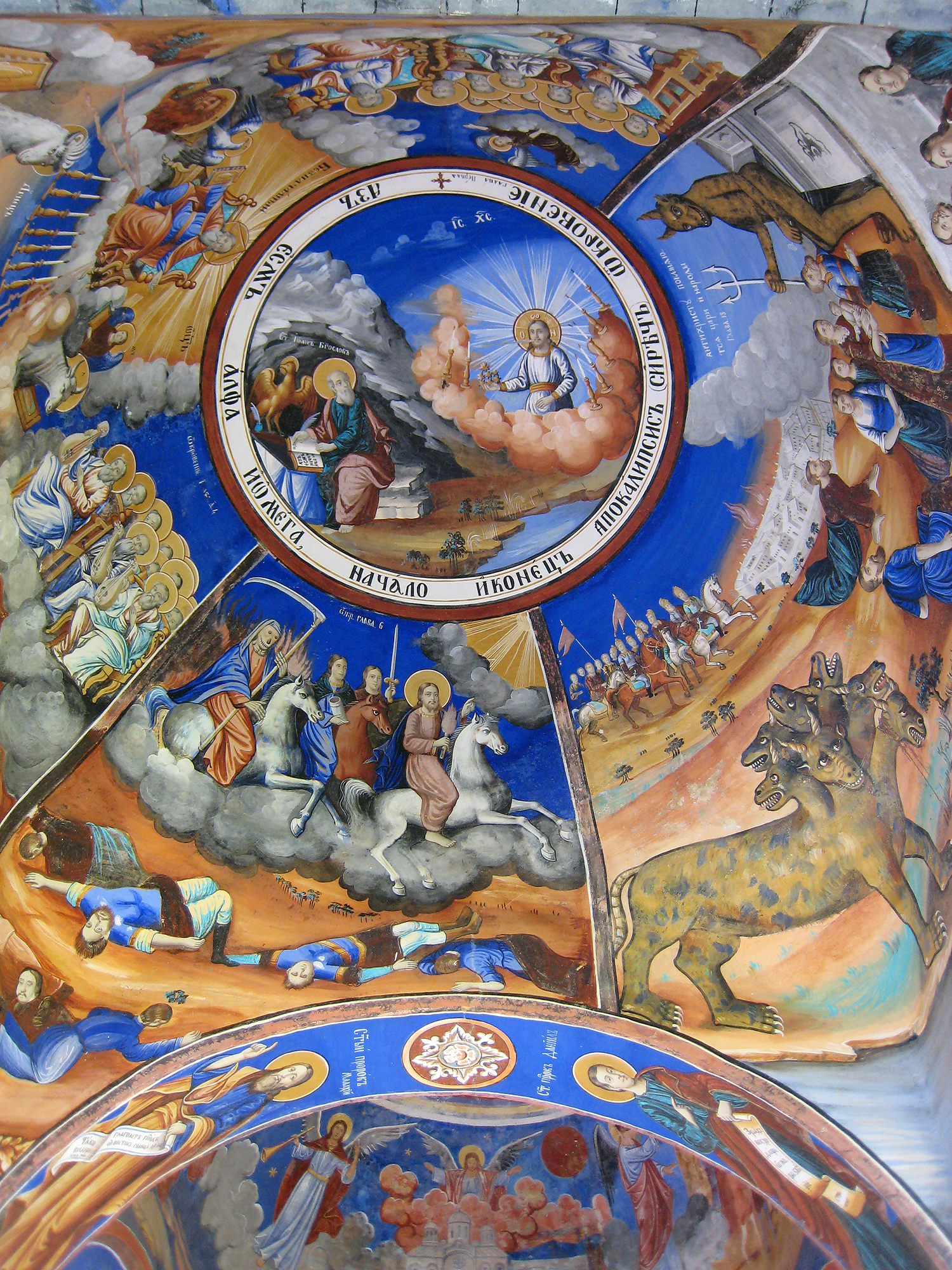 Old Orthodox Apocalipse Wall-painting from medieval Osogovo Monastery, Republic of Macedonia